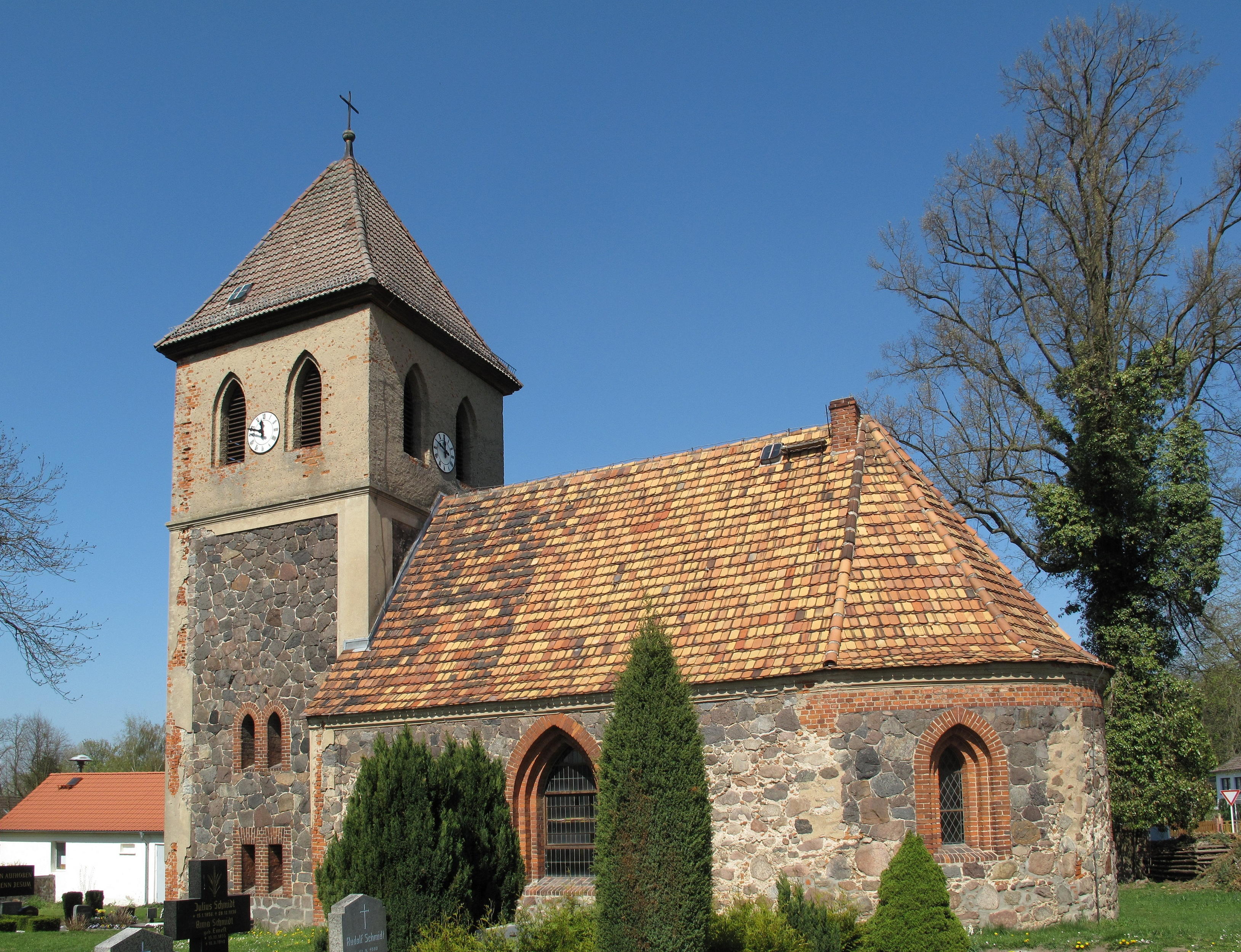 Listed village and Fieldstone church in Bollersdorf, a village of the municipality Oberbarnim in the District Märkisch-Oderland, Brandenburg, Germany.